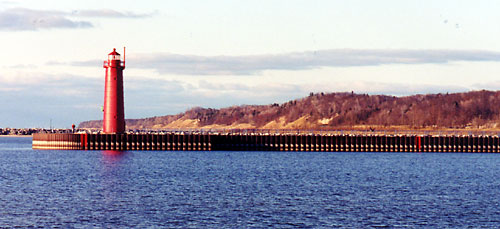 I took this picture